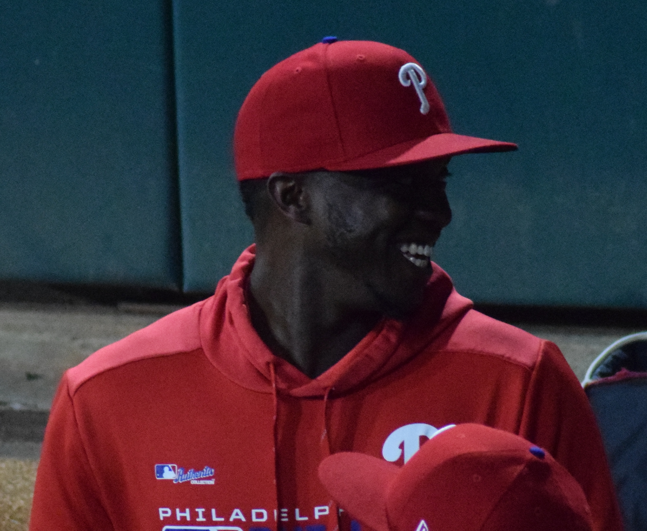 Edgar Garcia of the Philadelphia Phillies stands in the bullpen at Citizens Bank Park in 2019